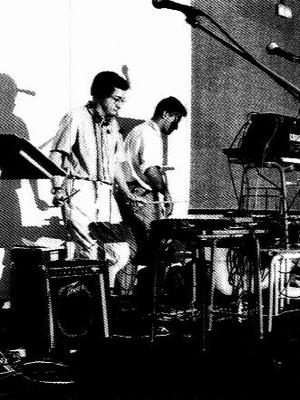 Esplendor Geometrico live in Tolosa 1987